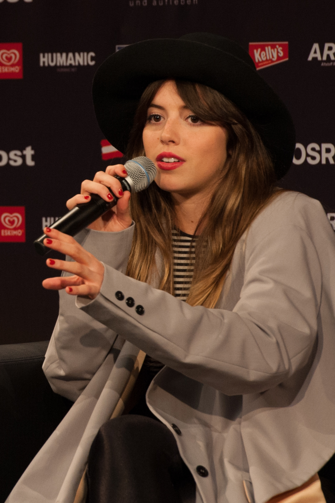 Eurovision Song Contest Vienna 2015: Leonor Andrade